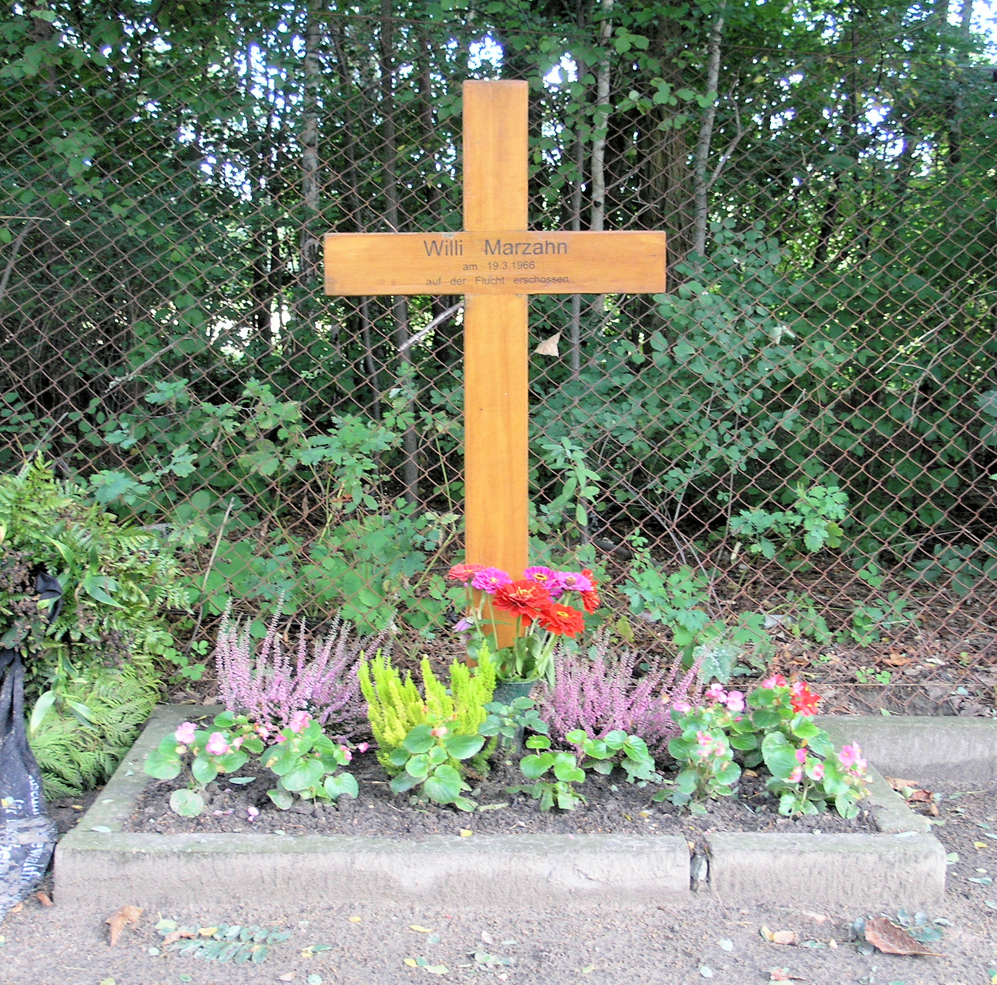 Memorial plaque, Willi Marzahn, Königsweg 326, Berlin-Wannsee, Germany Koordinate:52°23′47″N 13°8′26″E / 52.39639°N 13.14056°E